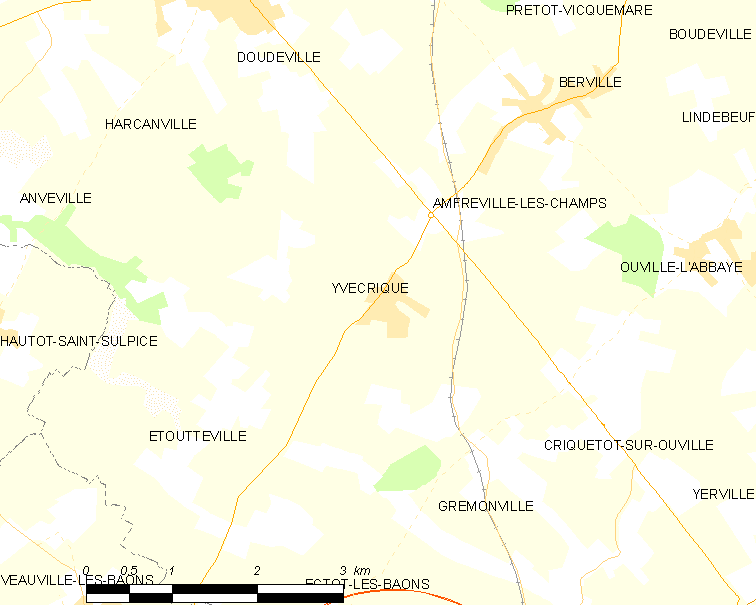 Map of French municipality Yvecrique